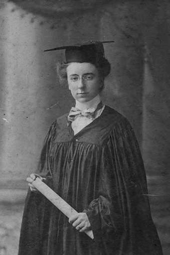 Graduation portrait of Mary Adele France, 1905 at Washington College, Chestertown, Maryland. France was the first President of St. Mary's Female Seminary Junior College and was also the driving force behind expanding the seminary to college level. She was both Principal of St. Mary's Female Seminary and then later its first College President. France was also one of the first women to receive a bachelor's degree from Washington College.